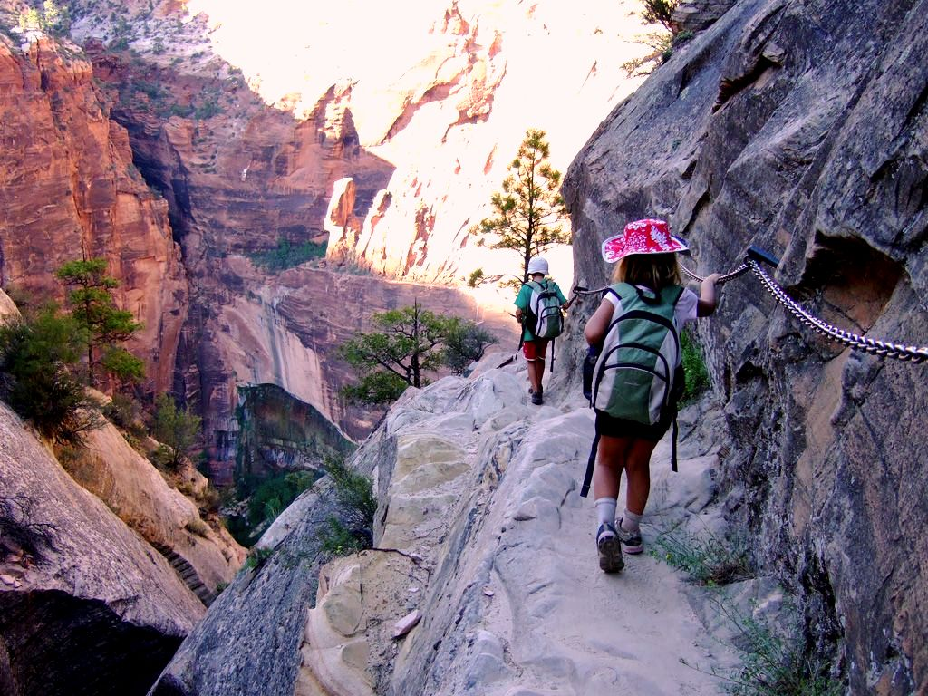 Hidden Canyon trail — Zion National Park in Utah.